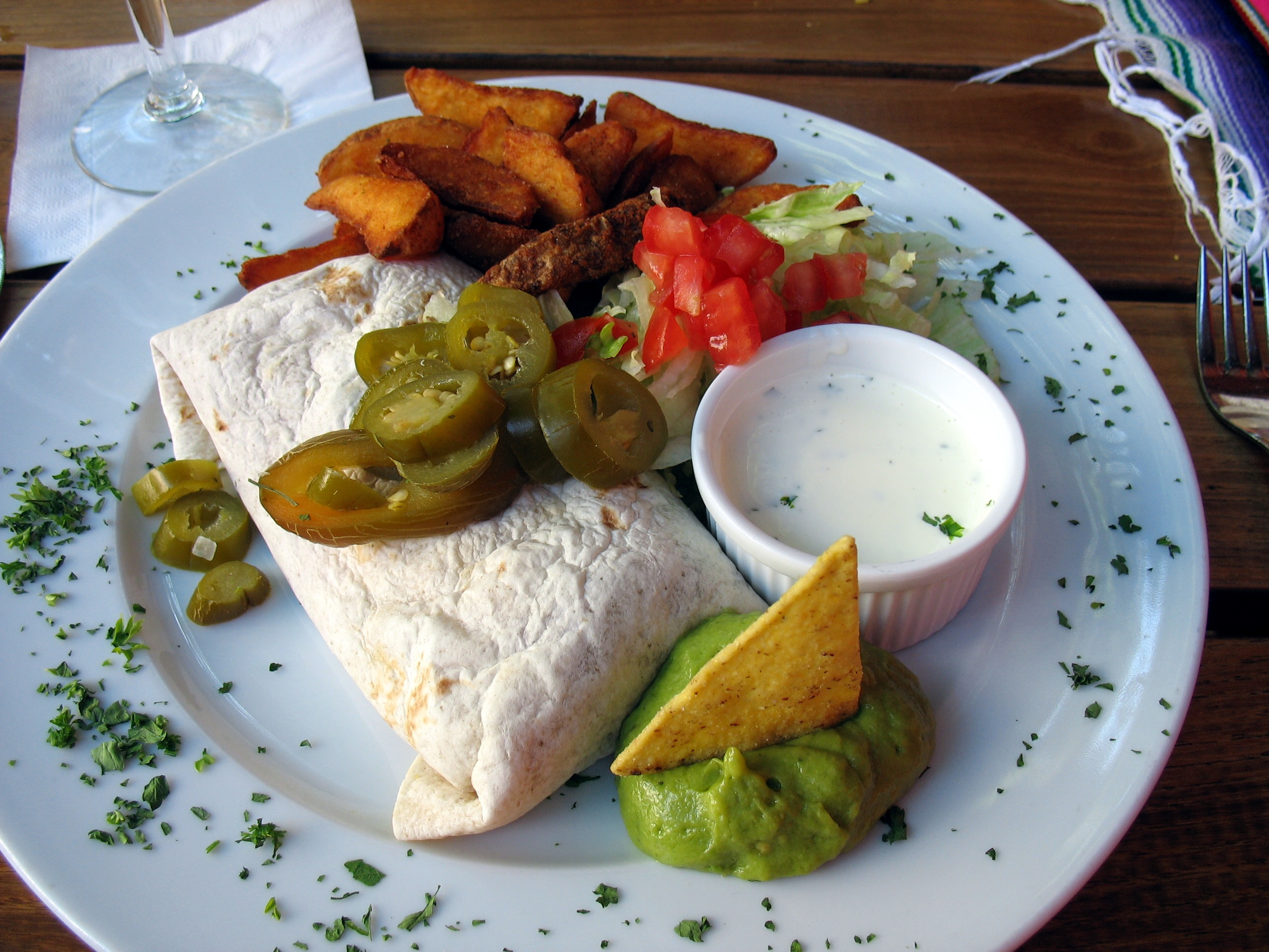 Veggie Burrito Nuremberg